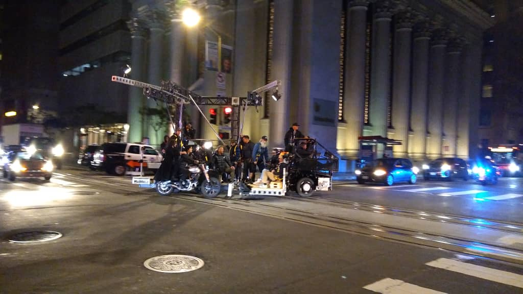 Keanu Reeves and Carrie Ann Moss film a motorcycle scene in the financial district in San Francisco under the direction of Lana Wakowski